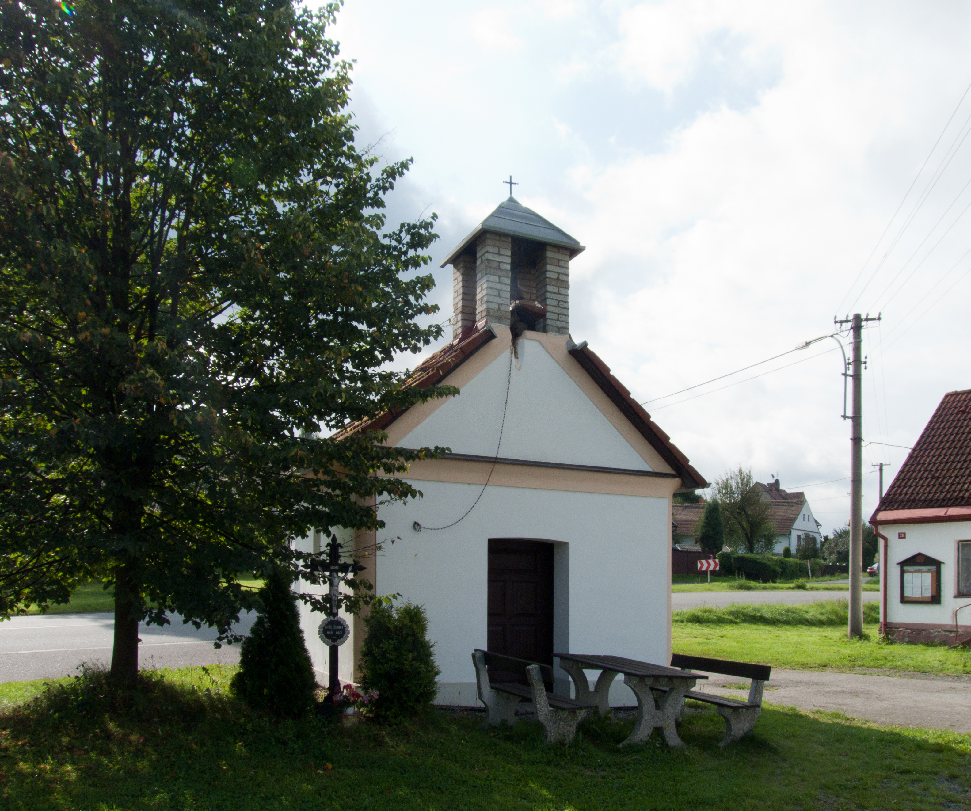 St John of Nepomuk Chapel in the village of Dolní Hrachovice, Tábor District, Czech Republic